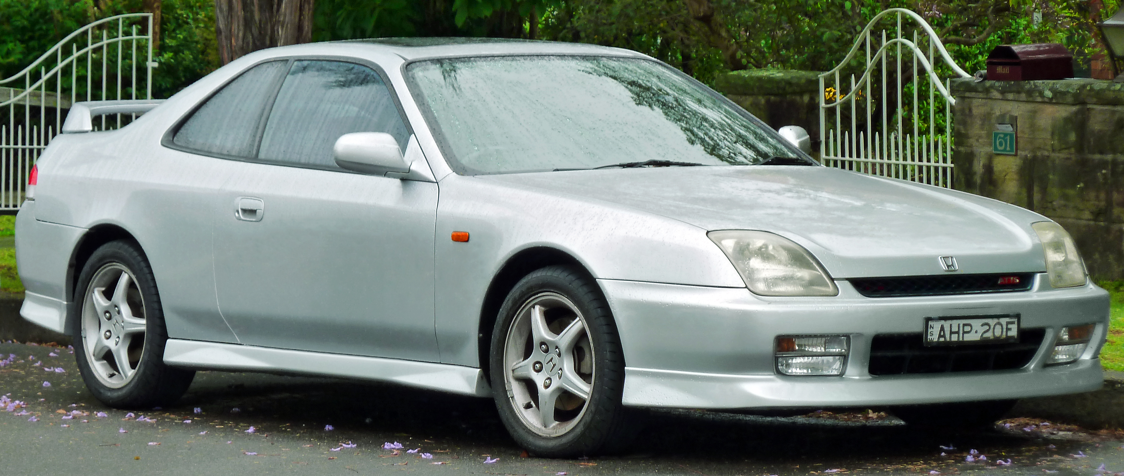 1999 Honda Prelude VTi-R ATTS coupe. Photographed in East Lindfield, New South Wales, Australia.